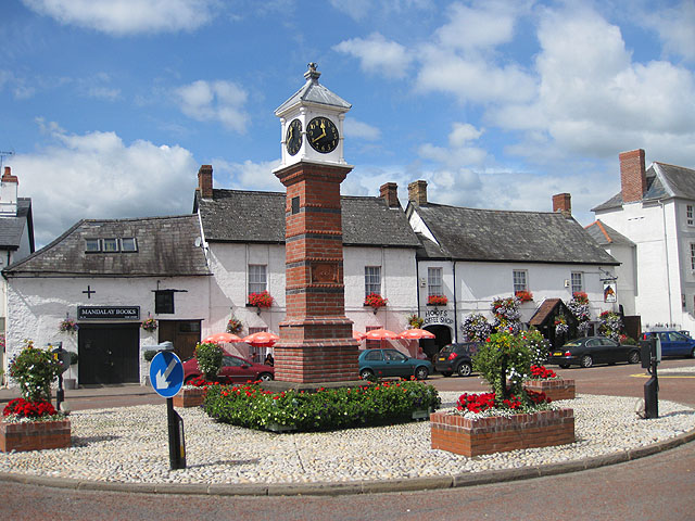 Commemorative town clock, Usk With the Nag's Head behind. The small market town is made even more attractive with the bright floral displays. The clock tower commemorates the Golden Jubilee of Queen Victoria 1837-1887.